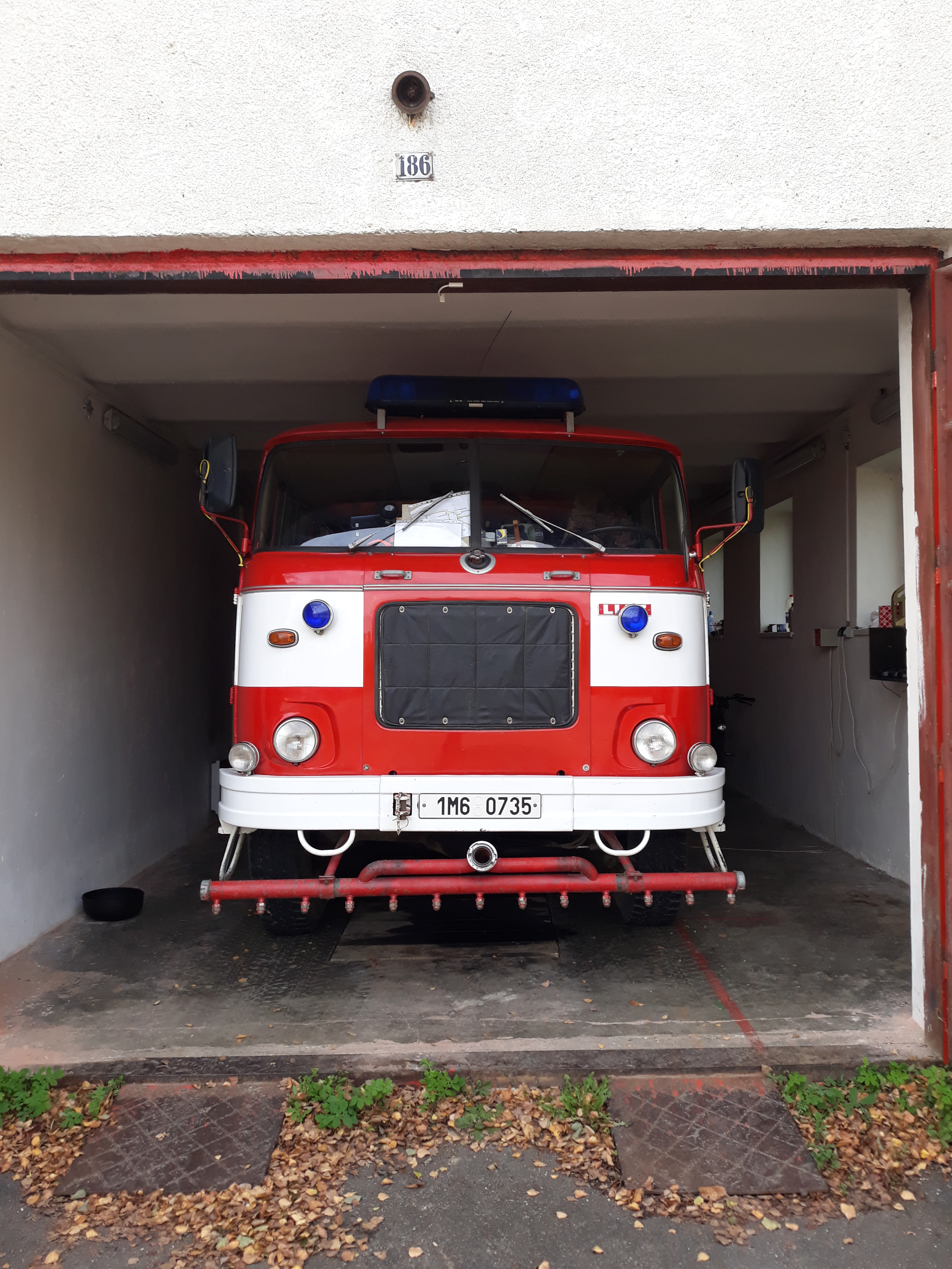 CAS 25 Škoda 706 RTHP SDH Dolní Libina